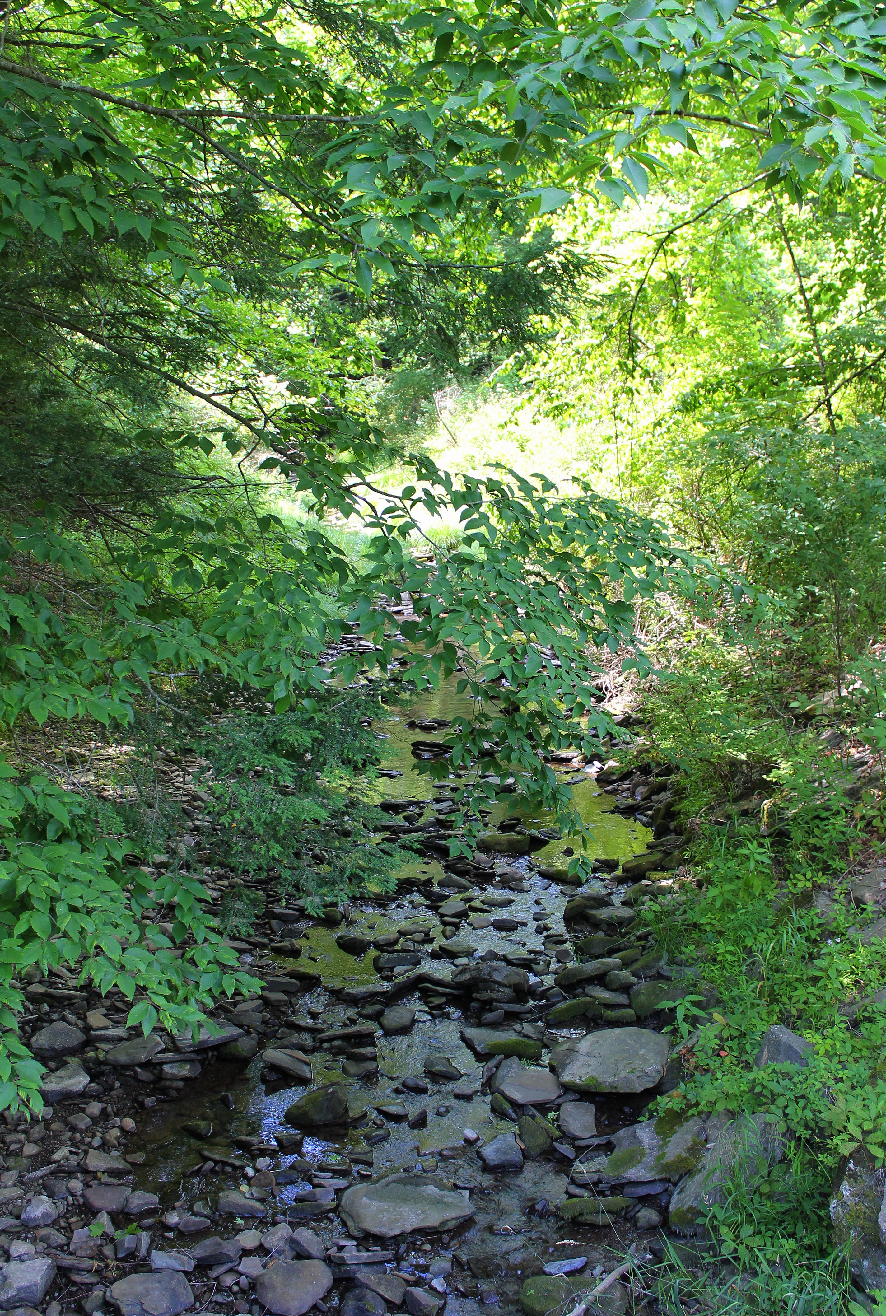 Monroe Creek, a tributary of Tunkhannock Creek, looking downstream in Wyoming County, Pennsylvania.